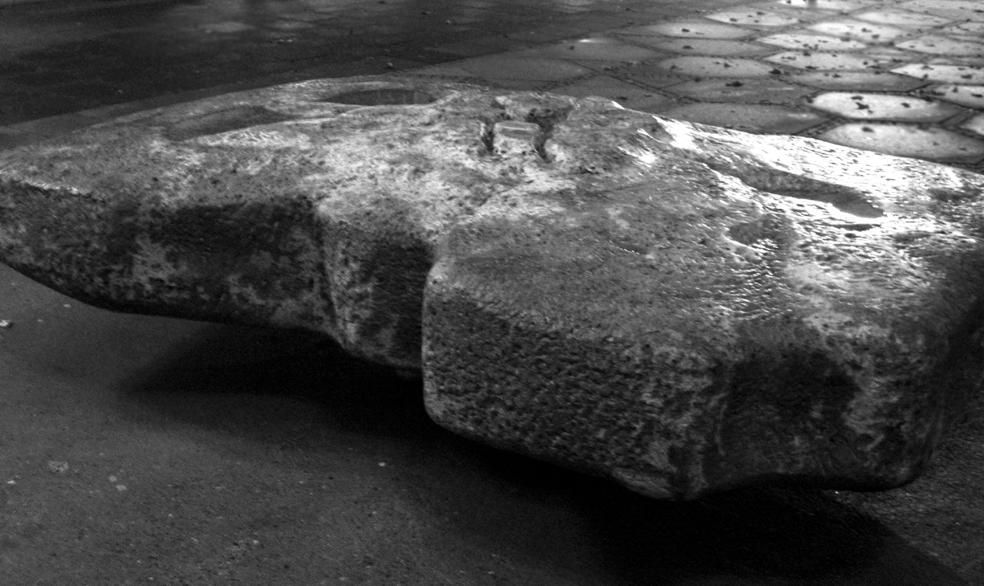 Skulpture by Ottomar Gassenmeyer at Marktplatz, Offenbach am Main